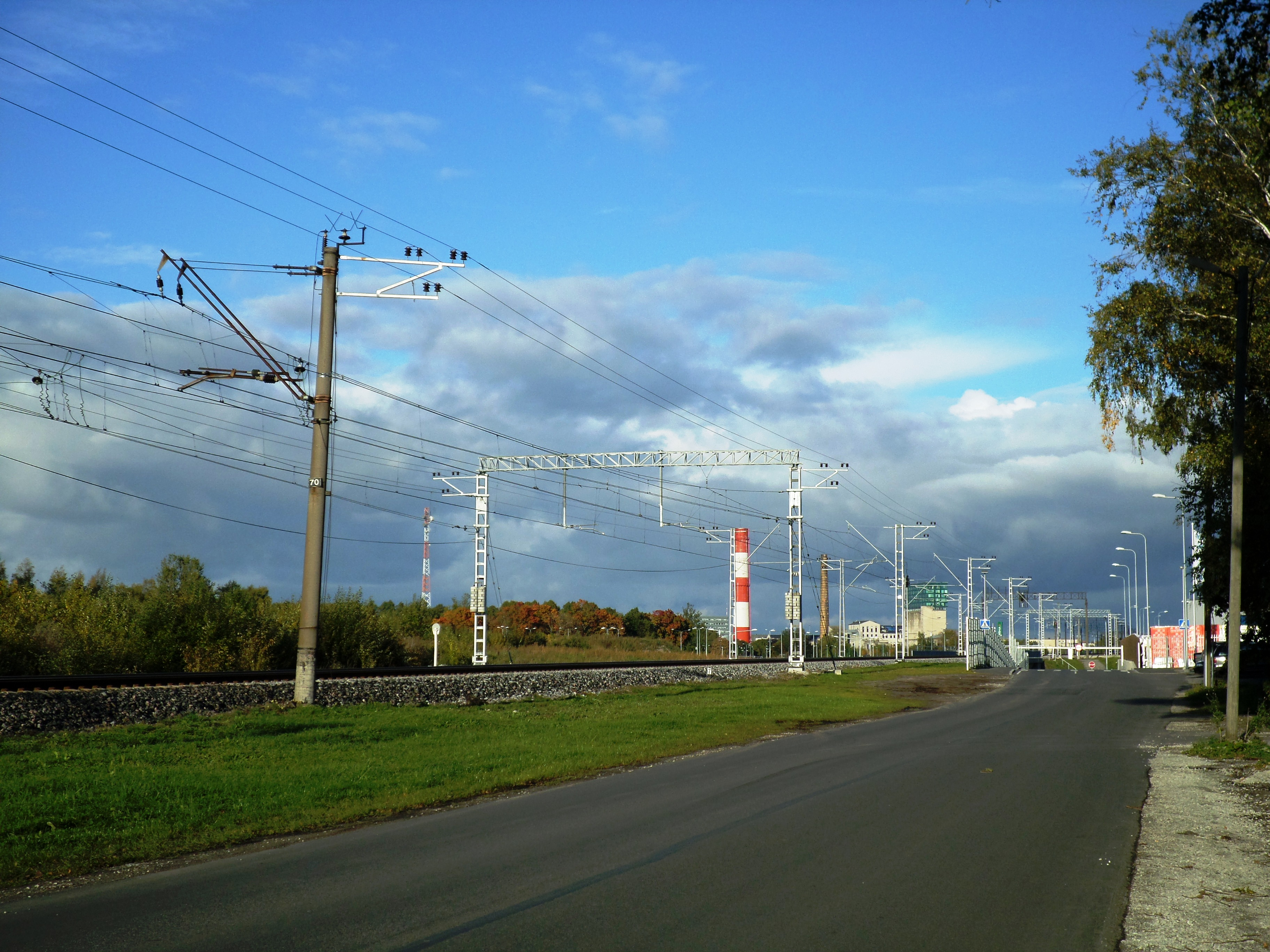 Viadukti tänav